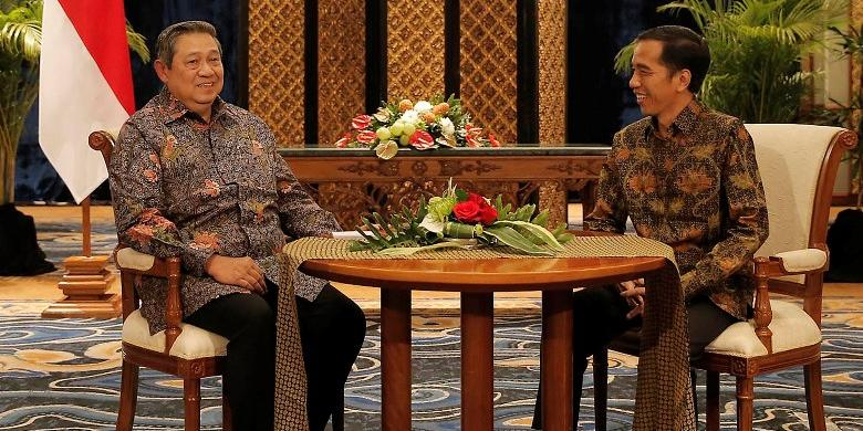 Indonesia's 6th president Susilo Bambang Yudhoyono and 7th president-elect Joko Widodo meeting to discuss the transition of power in Laguna Resort and Spa, Nusa Dua, Bali, 27/8/2014